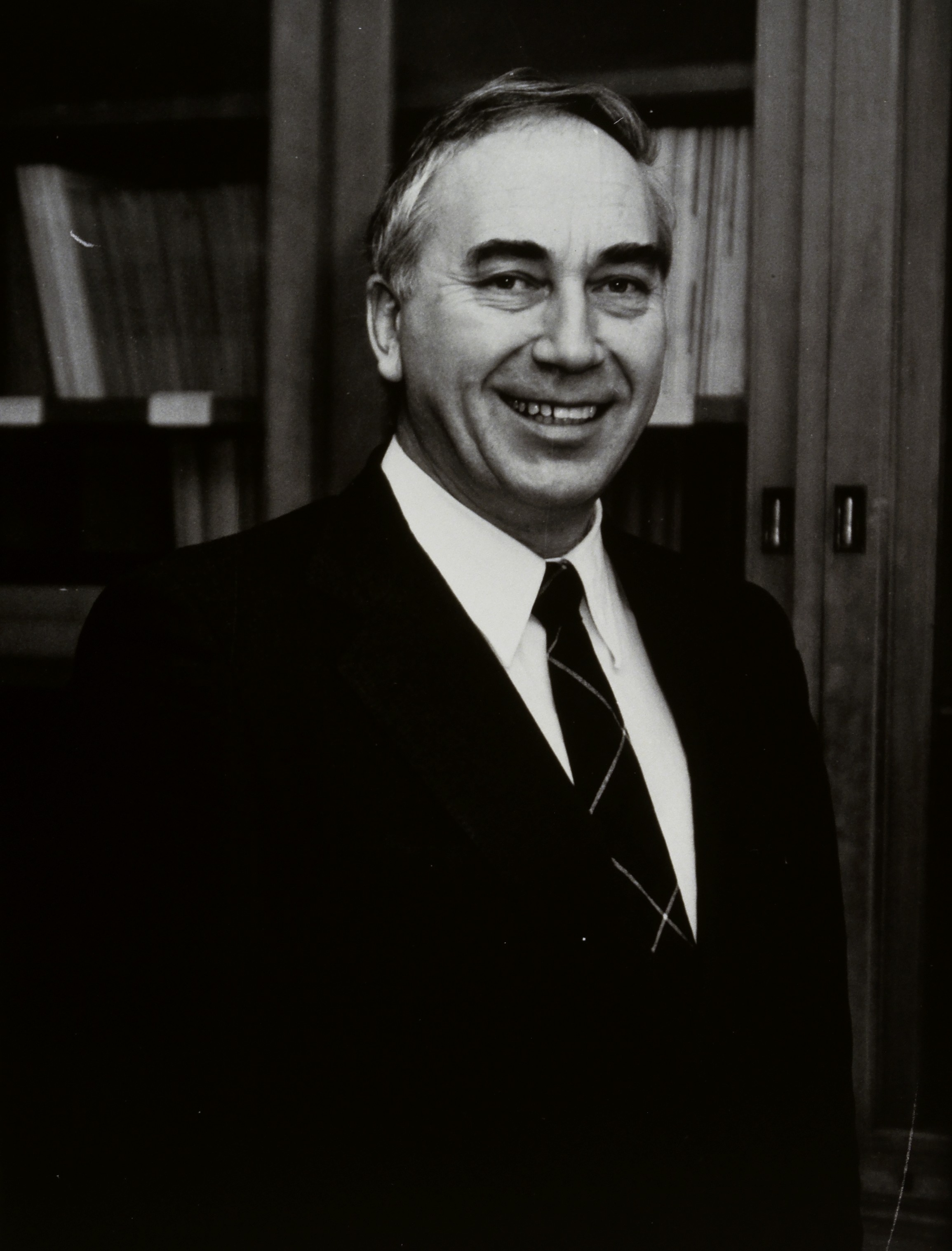 Eric Gray Forbes. Photograph. Iconographic Collections Keywords: portrait photographs